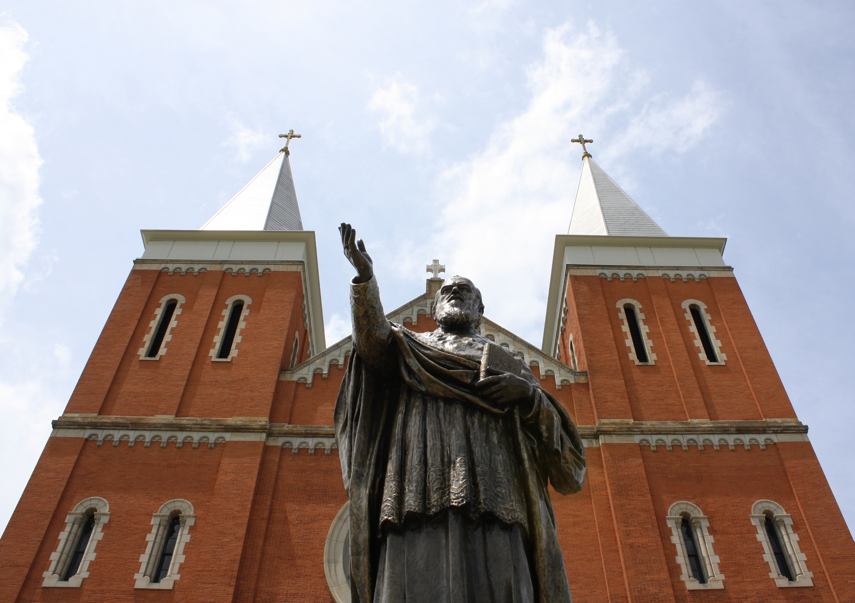 St. Vincent Archabbey Basilica in Latrobe, PA. Statue of Boniface Wimmer, first abbot of St. Vincent, in foreground.